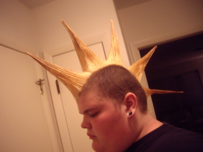 An example of a Liberty Spike Mohawk